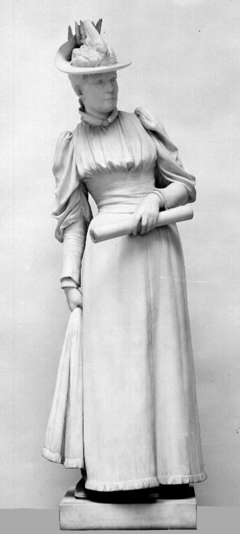 Vilhelm Bissen (1836-1913), En dame. Emilie Marie Rovsing, f. Raaschou, 1891